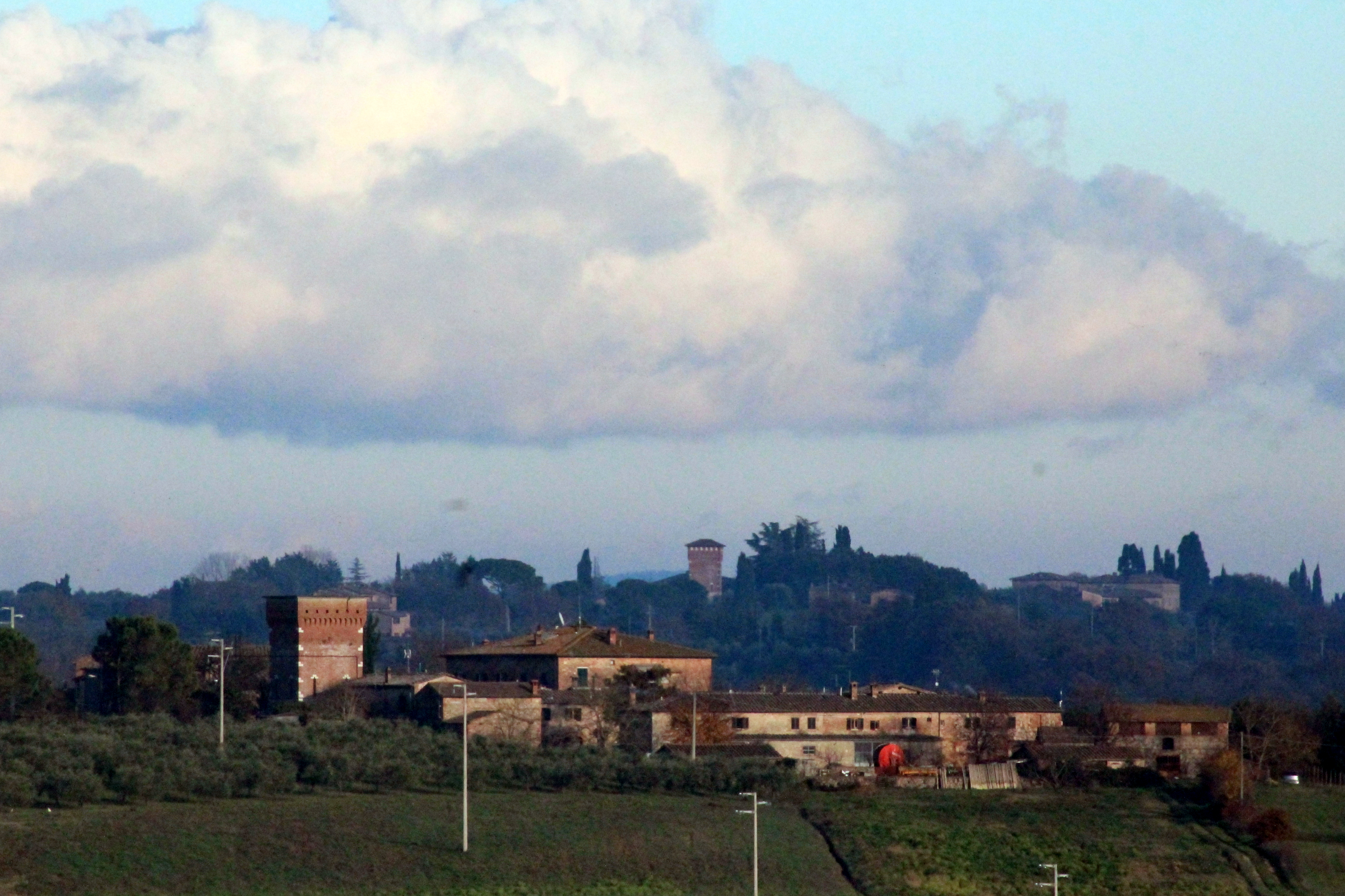 Ampugnano, village in the Territory of Sovicille, Montagnola Senese, Province of Siena, Tuscany, Italy